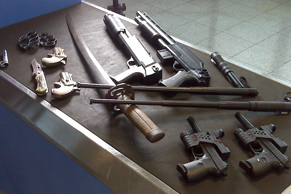 Deadly weapons including knives and replica firearms have been seized by Border Force officers from passengers at Manchester Airport. With the busy summer holiday season fully underway, Border Force is reminding travellers heading abroad to think carefully before bringing back holiday ‘souvenirs’. Read more